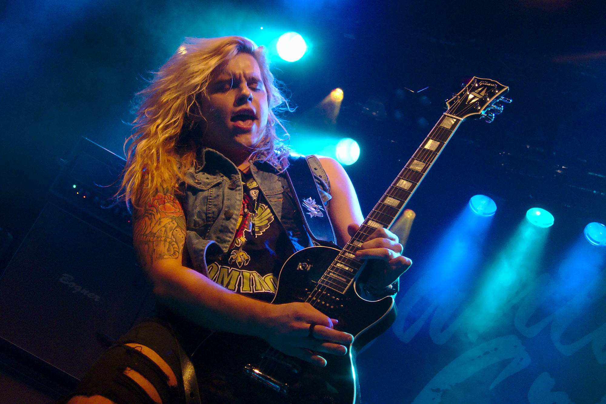 Santa Cruz @ Tavastia, 2012.11.09